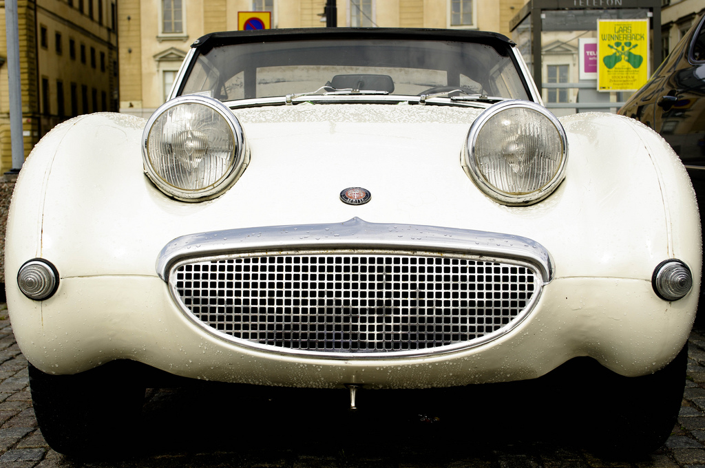 A front view of the Austin-Healey Bugeye Sprite White